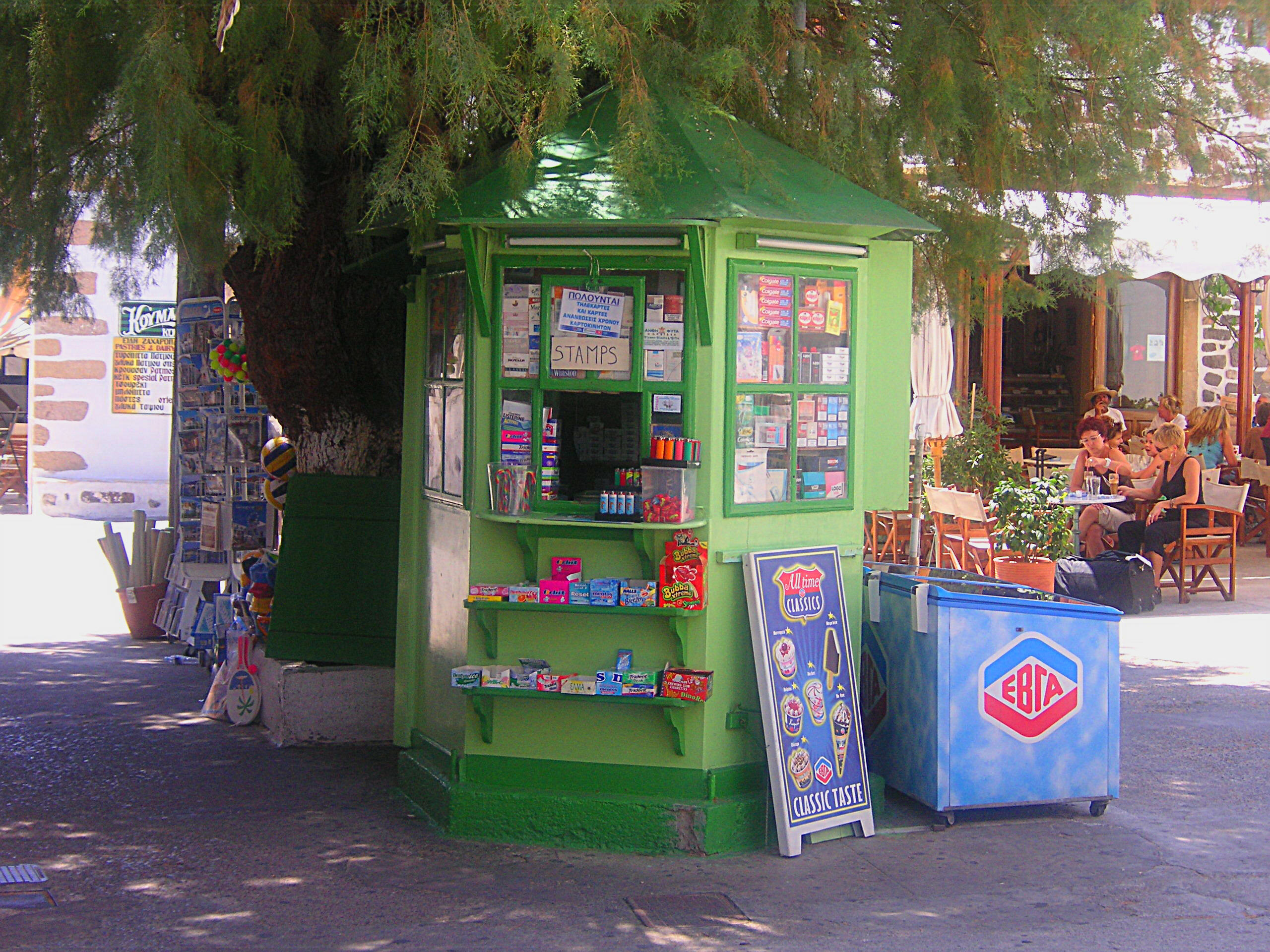 A kiosk in Skala, Patmos, Greece